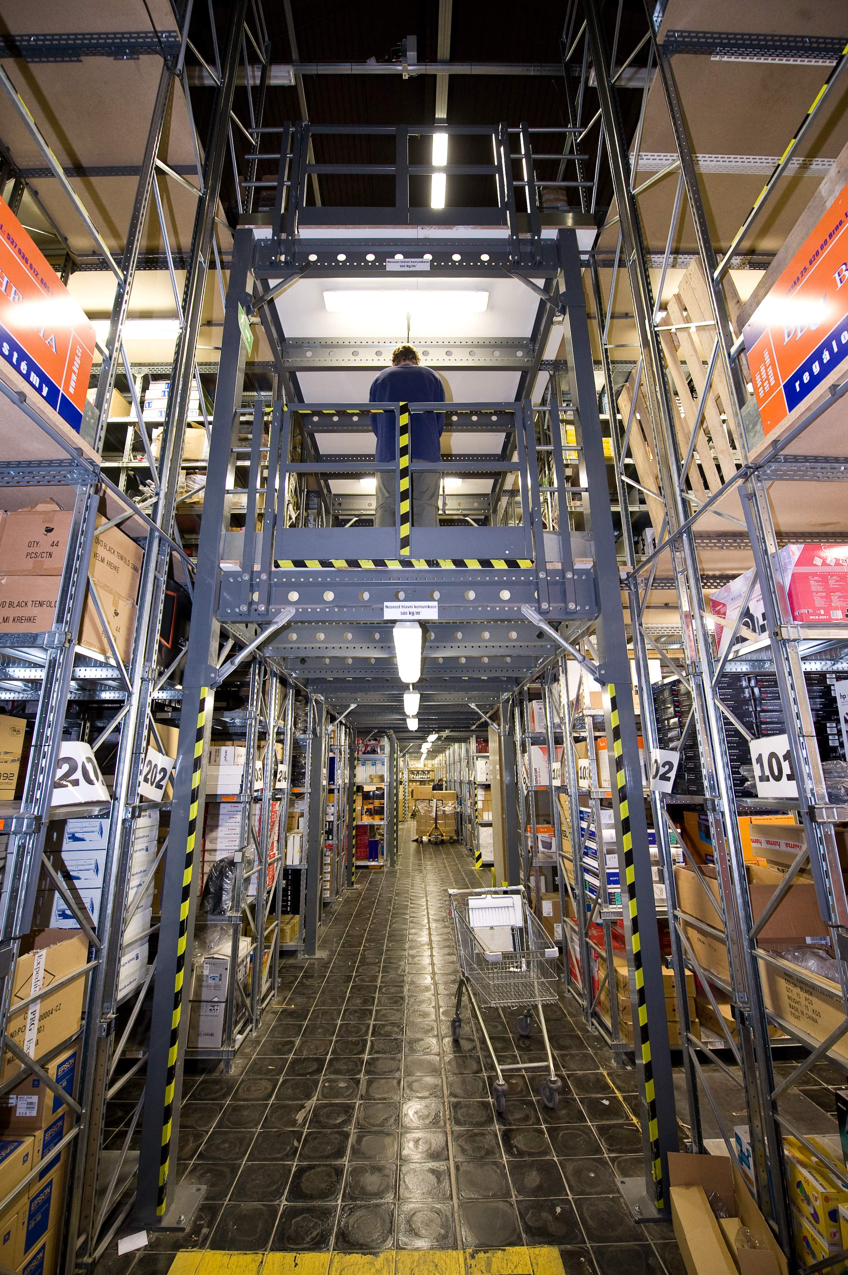 warehouse alza2